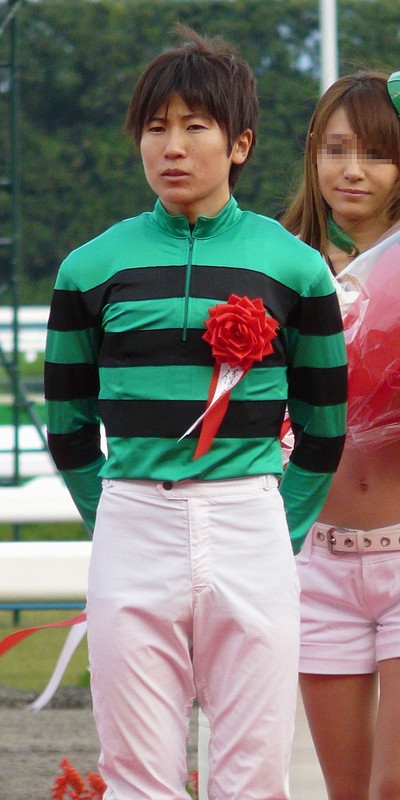 Hiroyasu-Tanaka(Jockey)